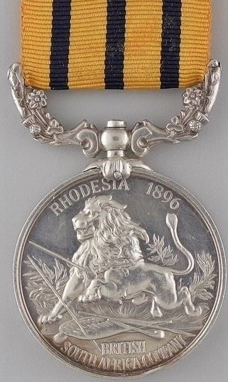 Reverse side of medal, for service in Rhodesia in 1896.